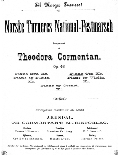 This file is from the book "MUSIKKHANDEL I NORGE FRA BEGYNNELSEN TIL 1909" (Music Publishing in Norway from the Beginning Until 1909) by Kari Michelsen. The author scanned the image from from a document printed in 1879-1886, held in the archives of the Aust-Agder kulturhistoriske senter in Arendal, Norway.